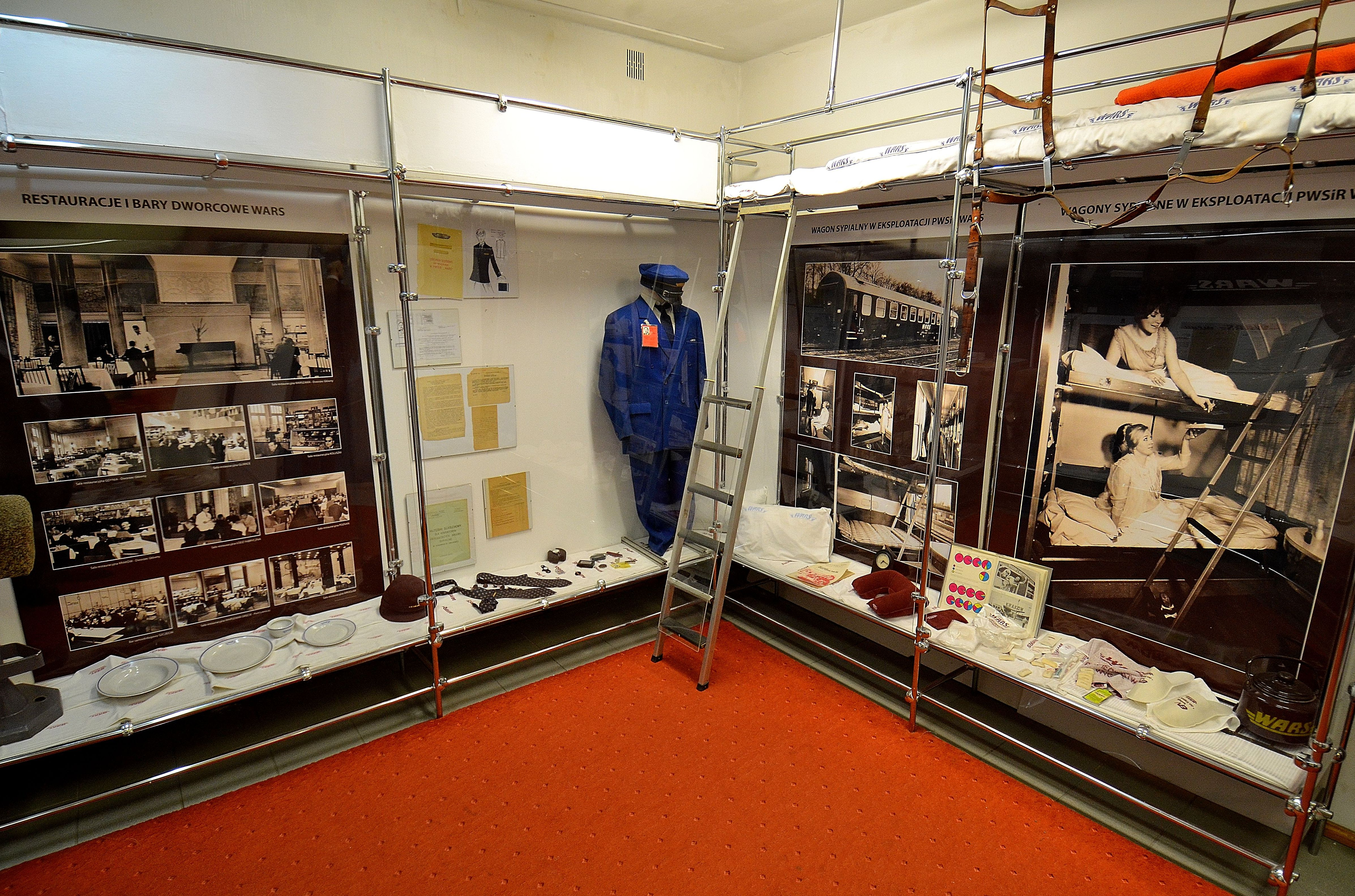 An exhibition in the Warsaw Railway Museum